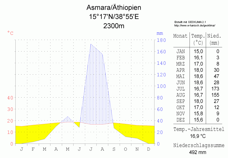 climate chart in the format by Walther and Lieth